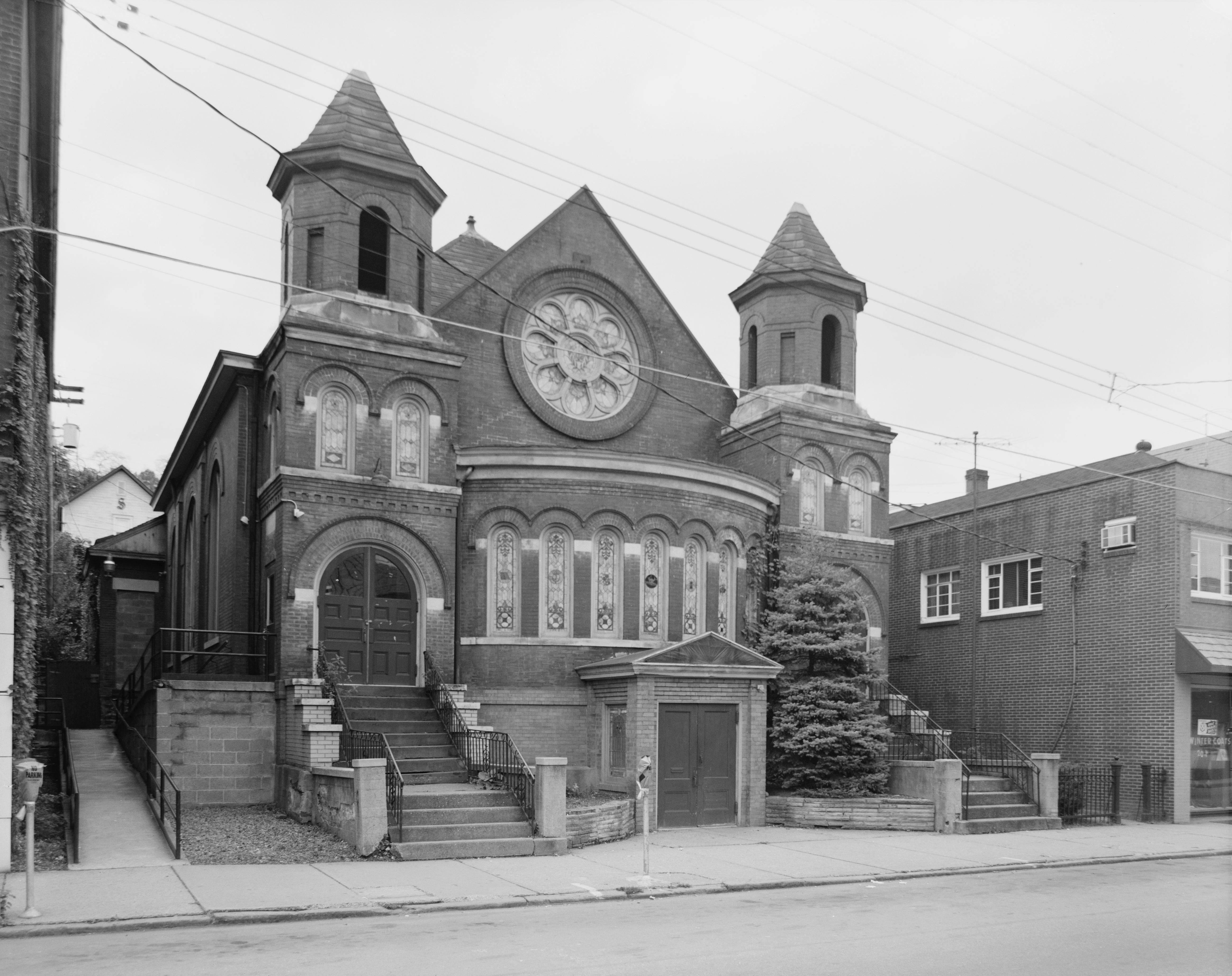 Front of First Christian Church, located at 553 Fallowfield Avenue in Charleroi, Pennsylvania, United States. Built in 1901 and demolished after this photo was taken, it was part of the Charleroi Historic District, a historic district that is listed on the National Register of Historic Places.